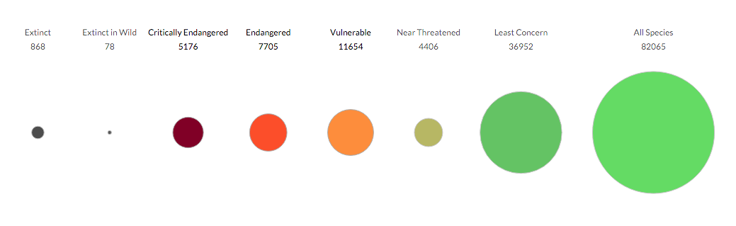 A visualisation that depicts the relative sizes of the number of categorized species